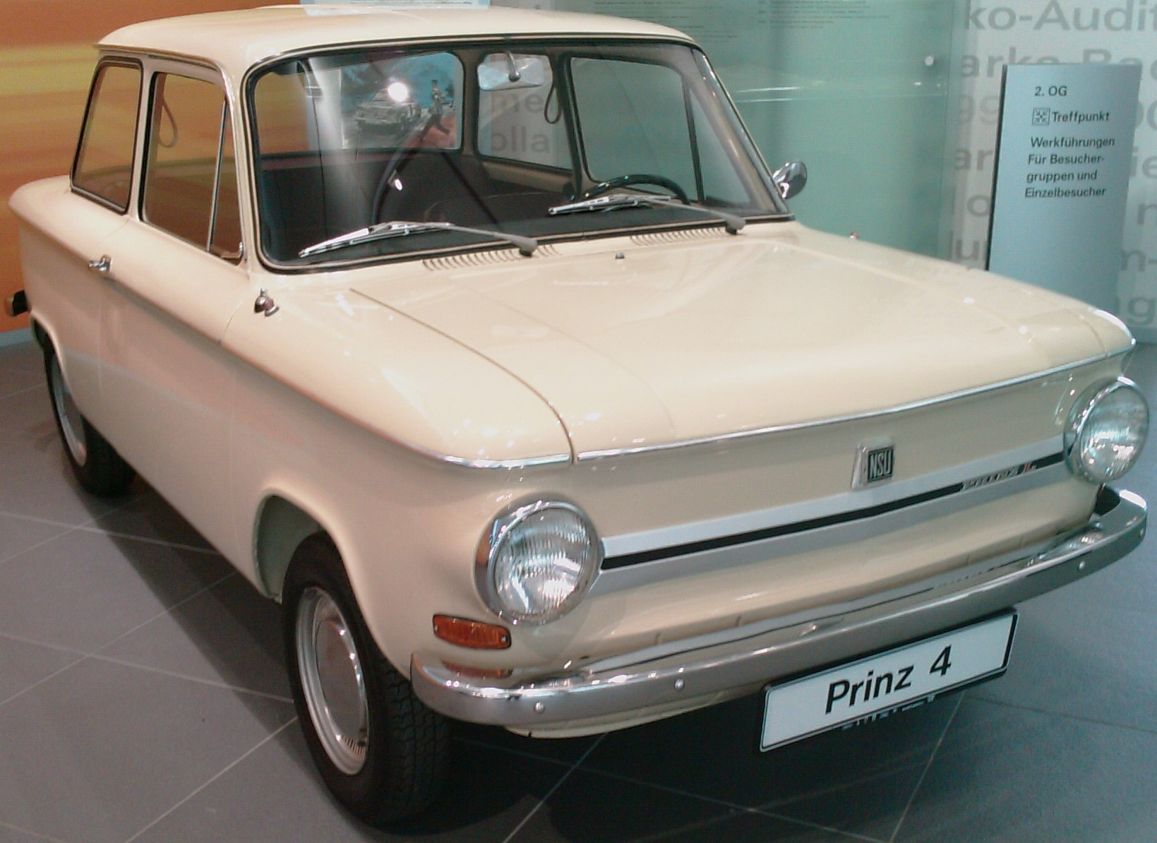 NSU Prinz 4 @ Audi Forum Neckarsulm